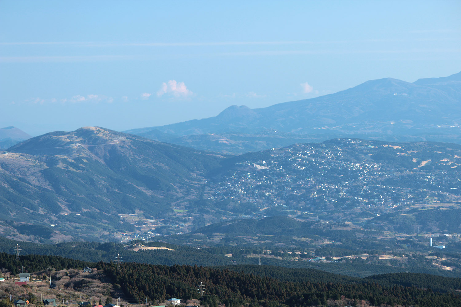 Dent of Tanna Fault as seen from the NbW.